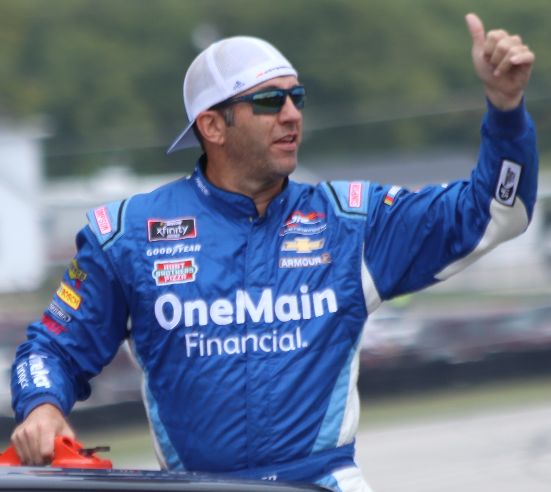 NASCAR Xfinity Series driver Elliott Sadler gives a Thumbs Up to fans at the 2018 Road America race.